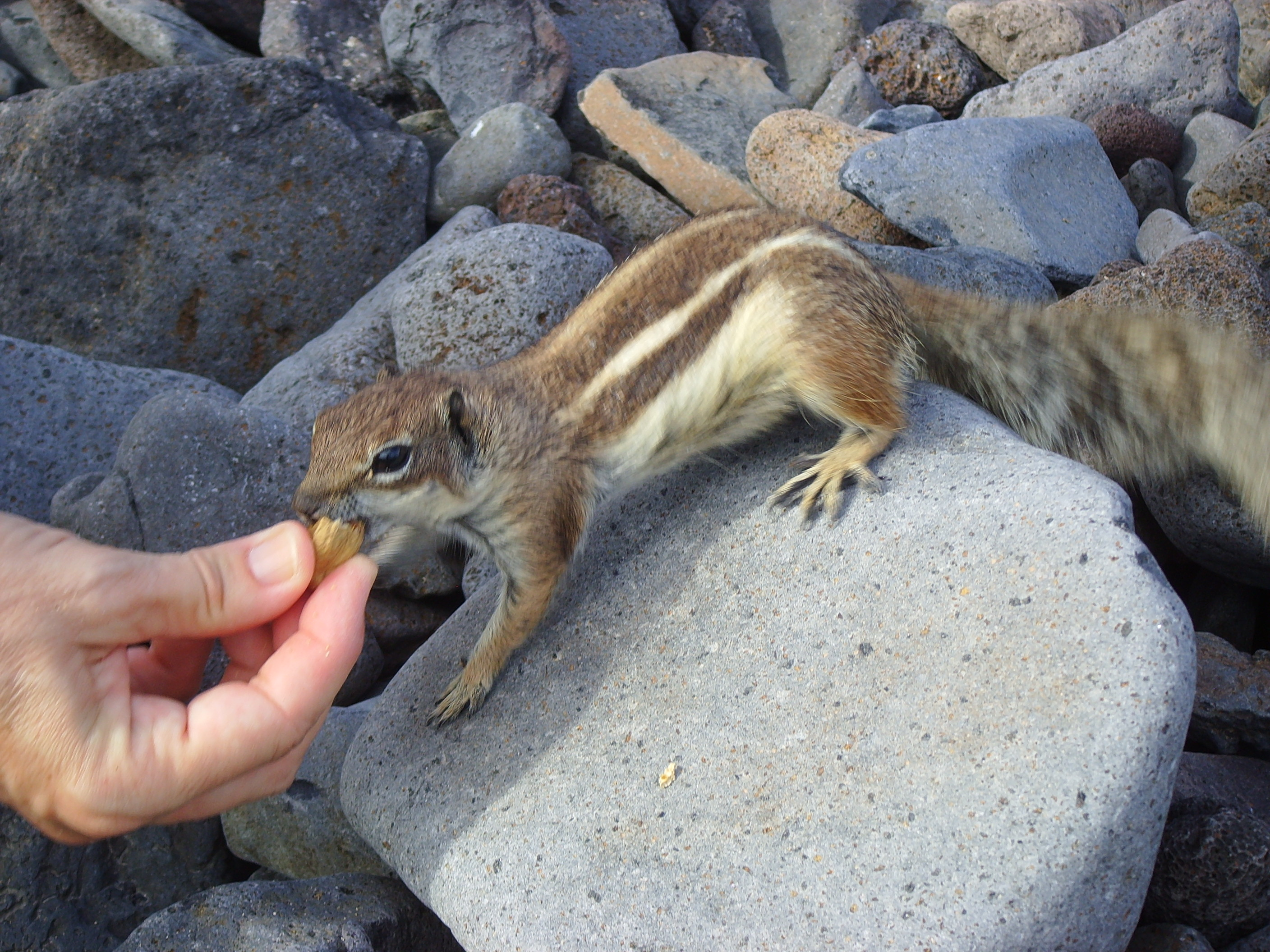 Atlantoxerus getulus from Fuerteventura (Playa Paraiso, Playas de Jandia)